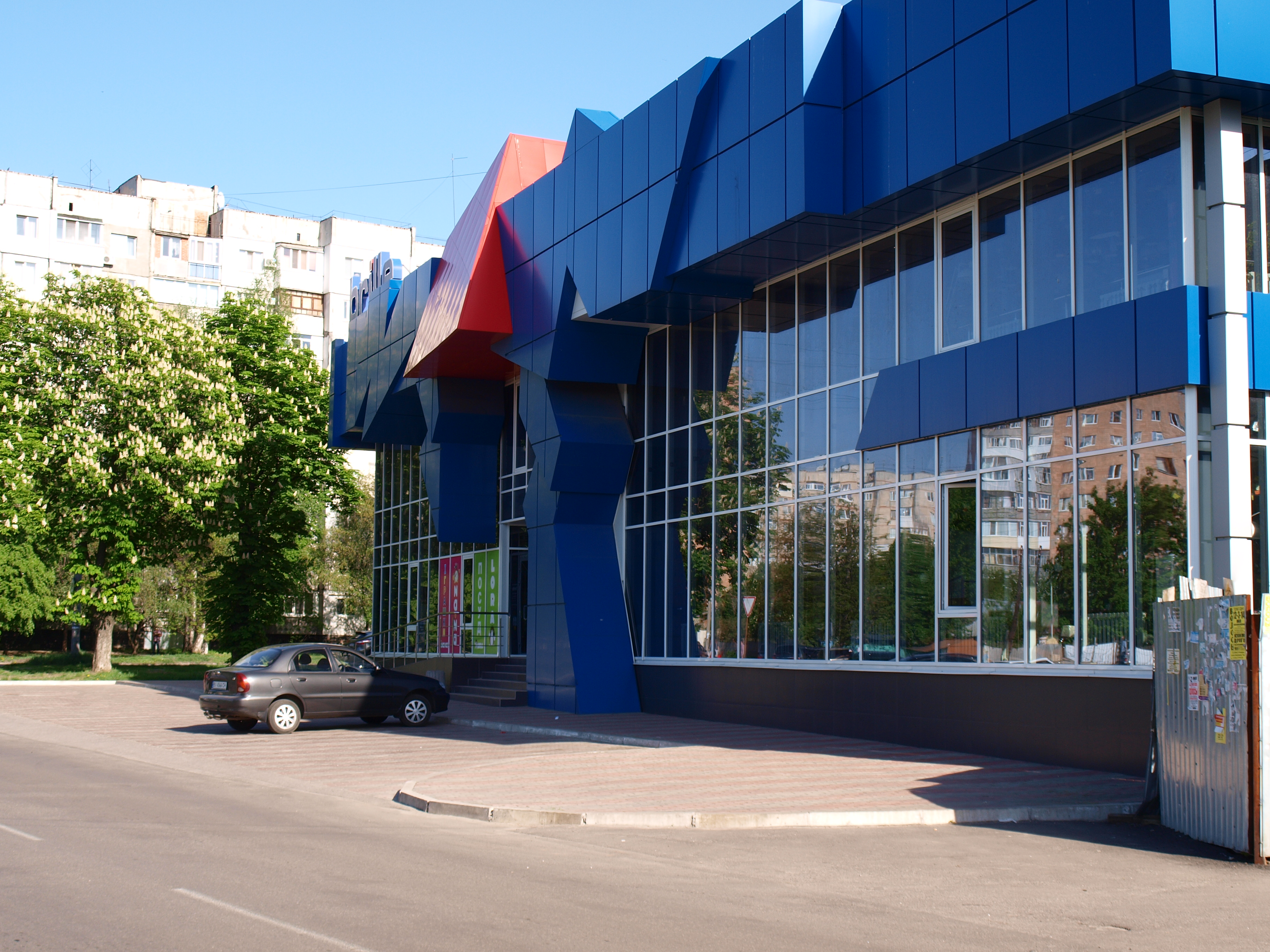 Tsiolkovsky Street in Poltava